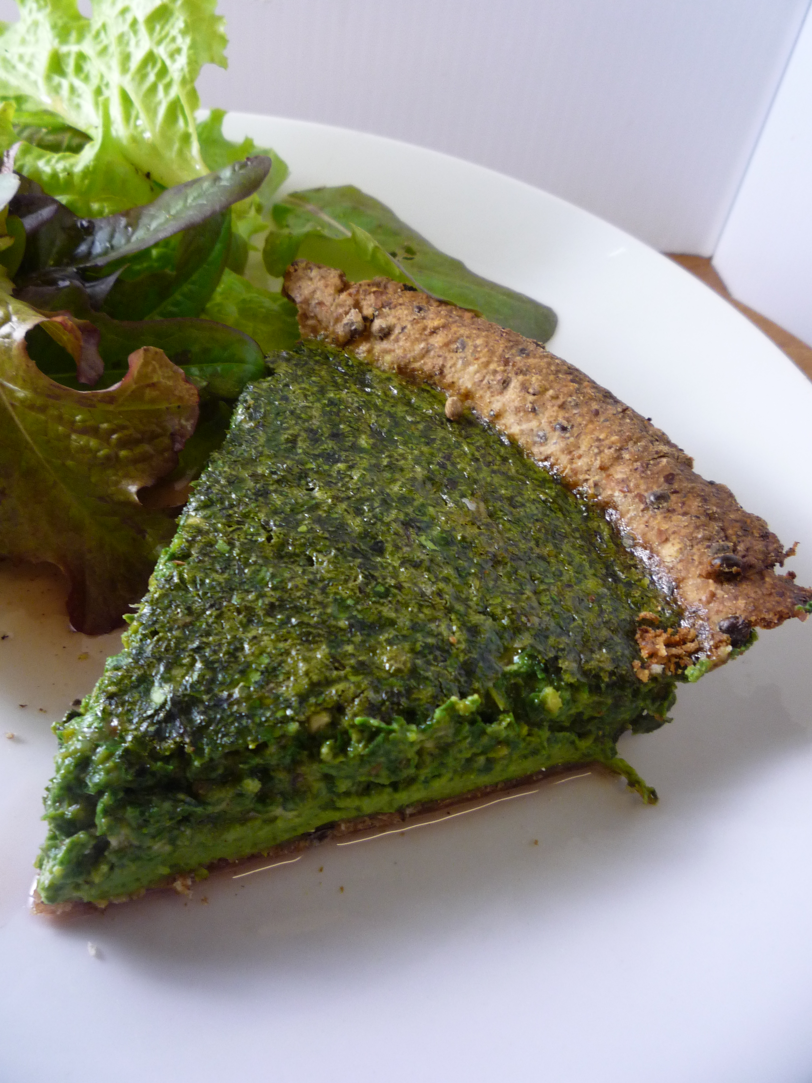 this recipe and more available on my blog Girl Interrupted Eating.